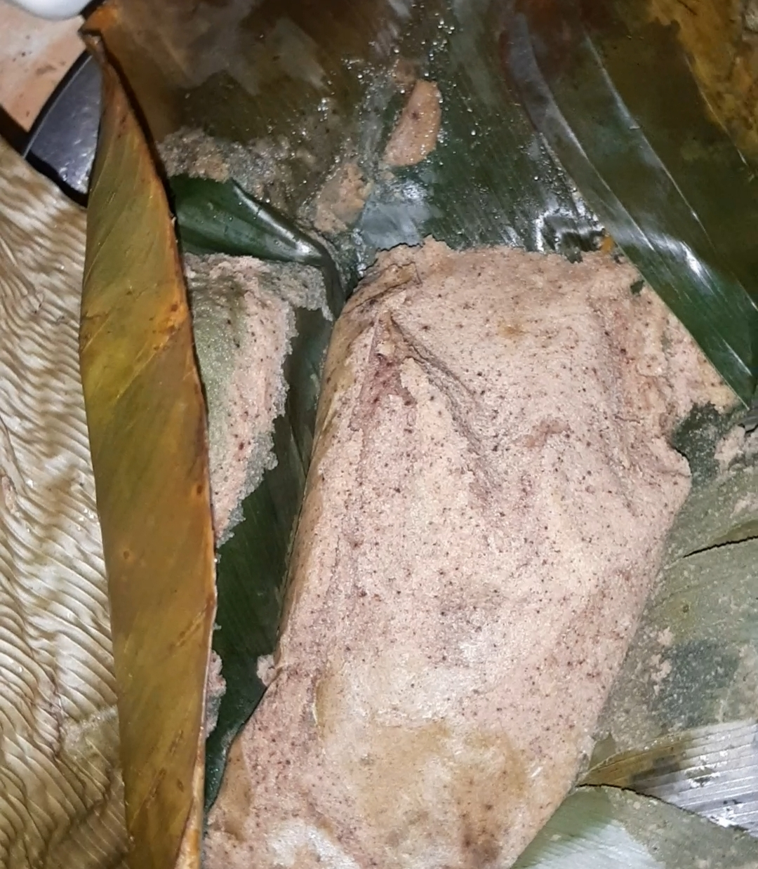 This dish is prepared with beans flour. It's often taken with powdered pepper and oil. It's called 'tubaani' usually enjoyed by the people in the Northen region of Ghana.